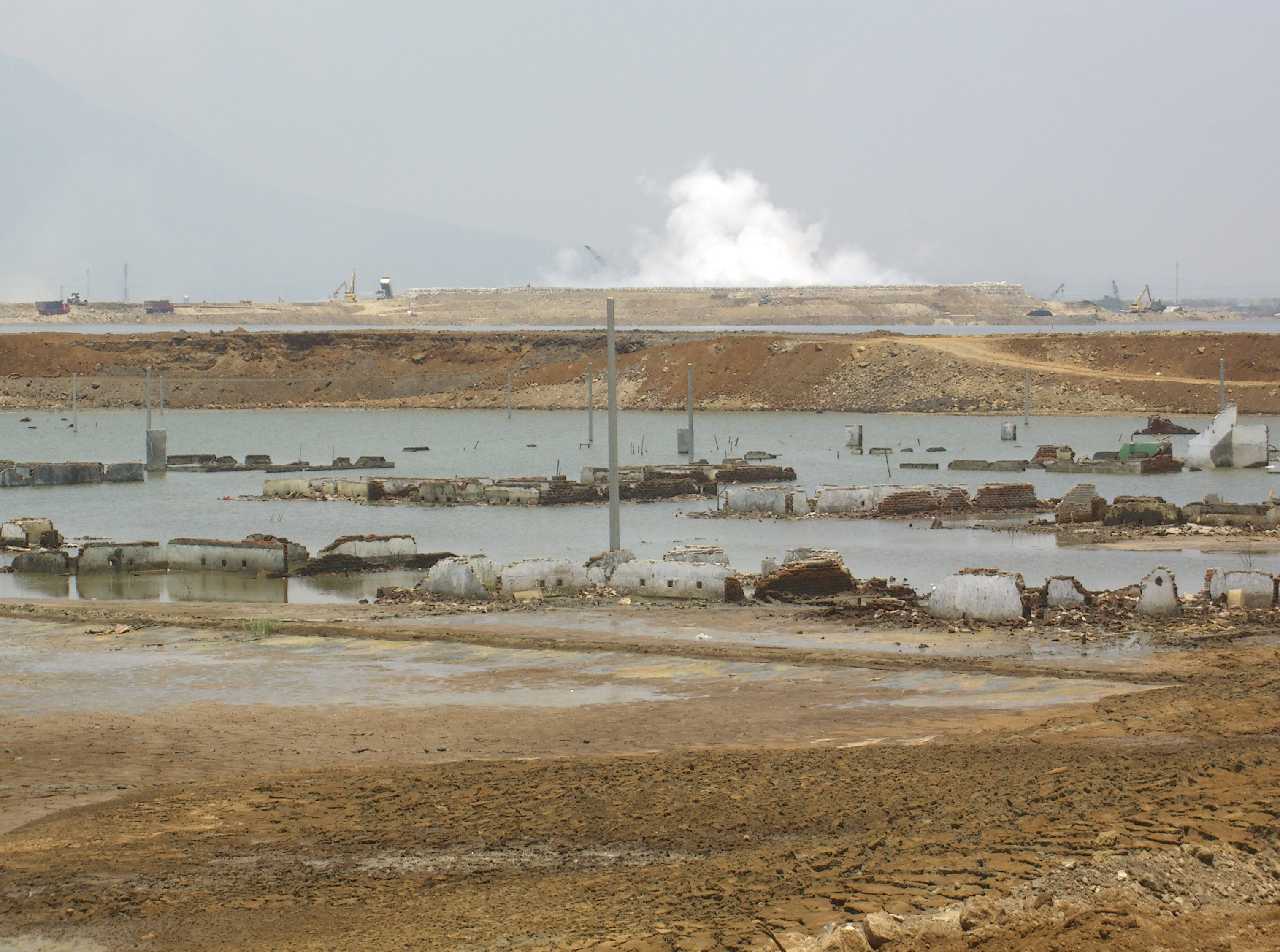 Image shows scale of the mud hole, with efforts to contain it by removing the mud and creating embankments for flood defence.